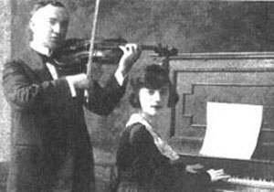 Abe Scwartz an his daughter Sylvia. - ca. 1923